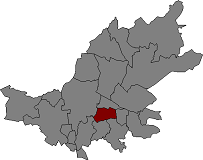 Location of Puigpelat in Alt Camp